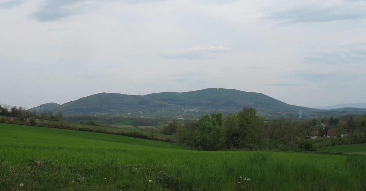 View on Kosmaj, near Belgrade, Serbia.